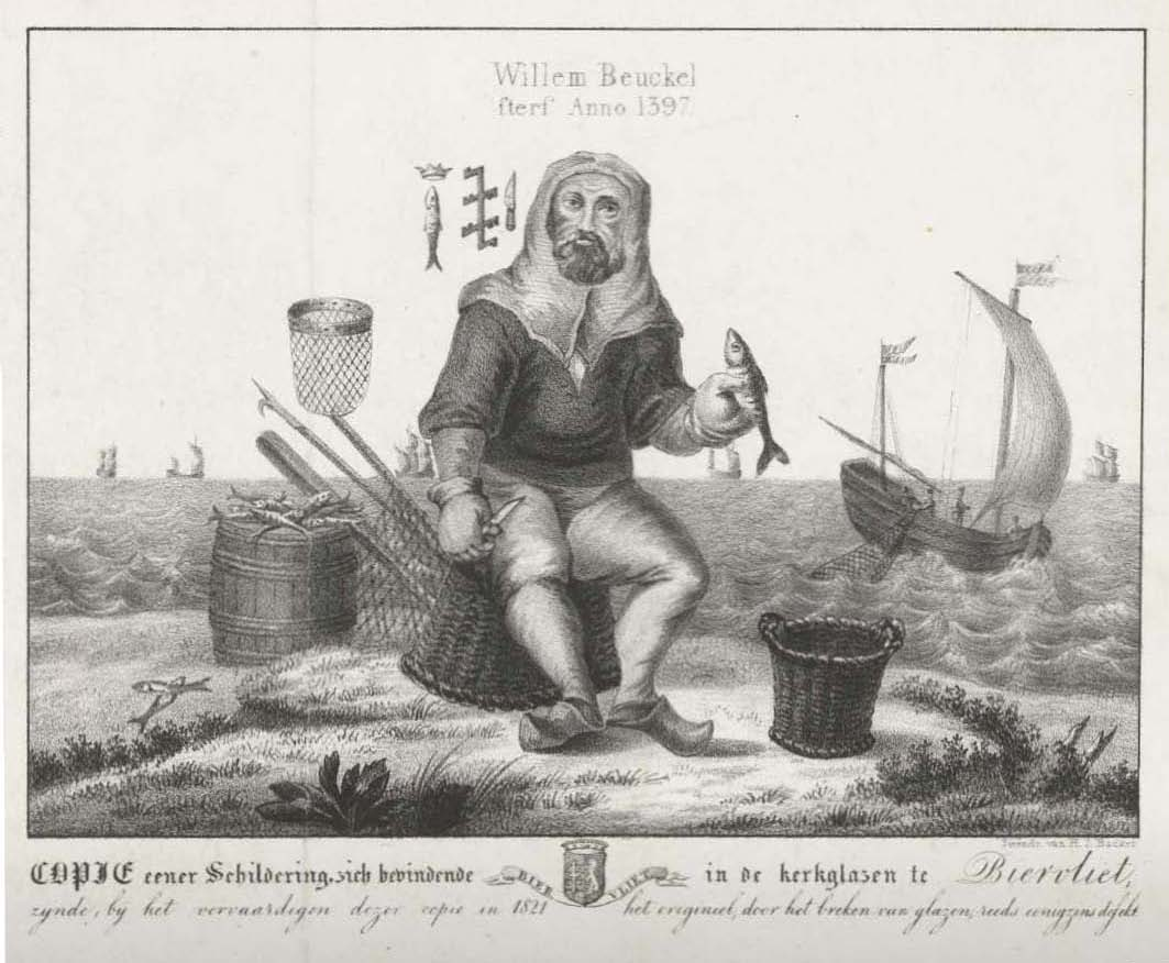 Painting of William Buckels. Per a translation provided by User:Lindert, the text at the top reads: Willem Beuckel, year of death 1397. At the bottom is says: Copy of a painting located in the church windows in Biervliet, the original being somewhat defective already when this copy was made in 1821, due to the breaking of the glass. At the bottom right corner it states: Lithograph by H.J. Backer.